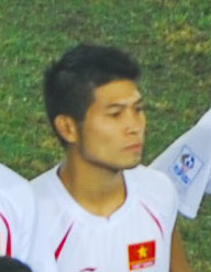 Nguyen Minh Chau in Vietnam football team saluting before the match with Thailand in the second-tier AFF Cup 2008 final, December 28, 2008, at My Dinh National Stadium